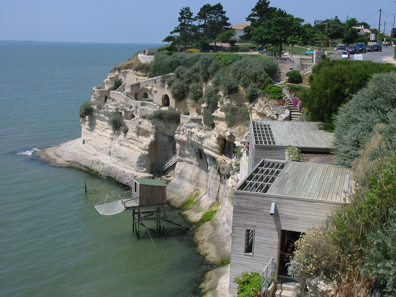 view on the Gironde estuary, from Régulus caves, Meschers (17), SW France